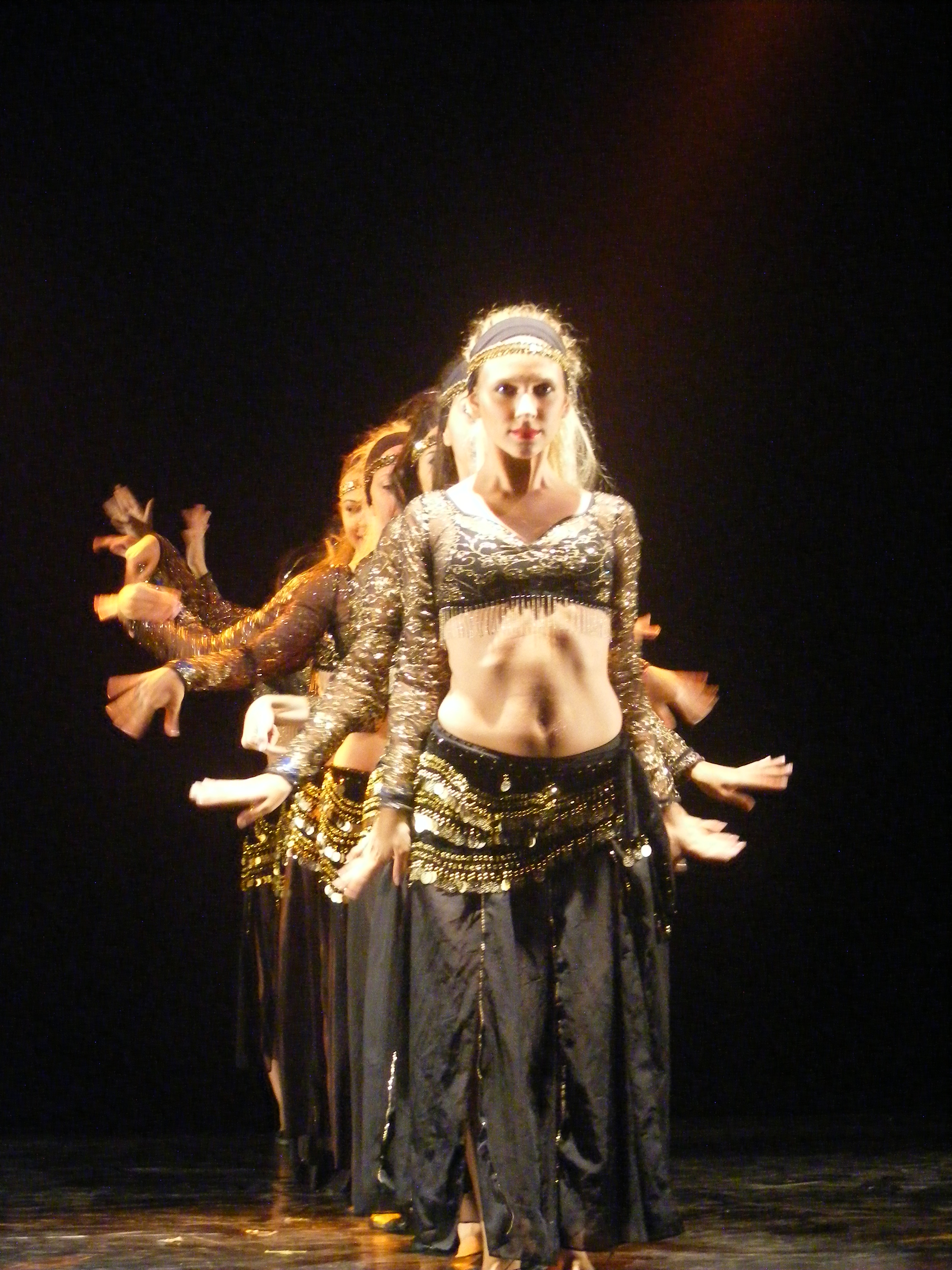 Modern Belly Dance Troupe